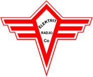 Elektrit logo